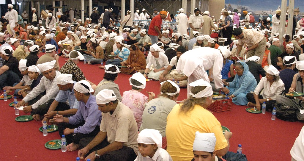 Photo taken by GNNSJ at their langar hall and gurdwara